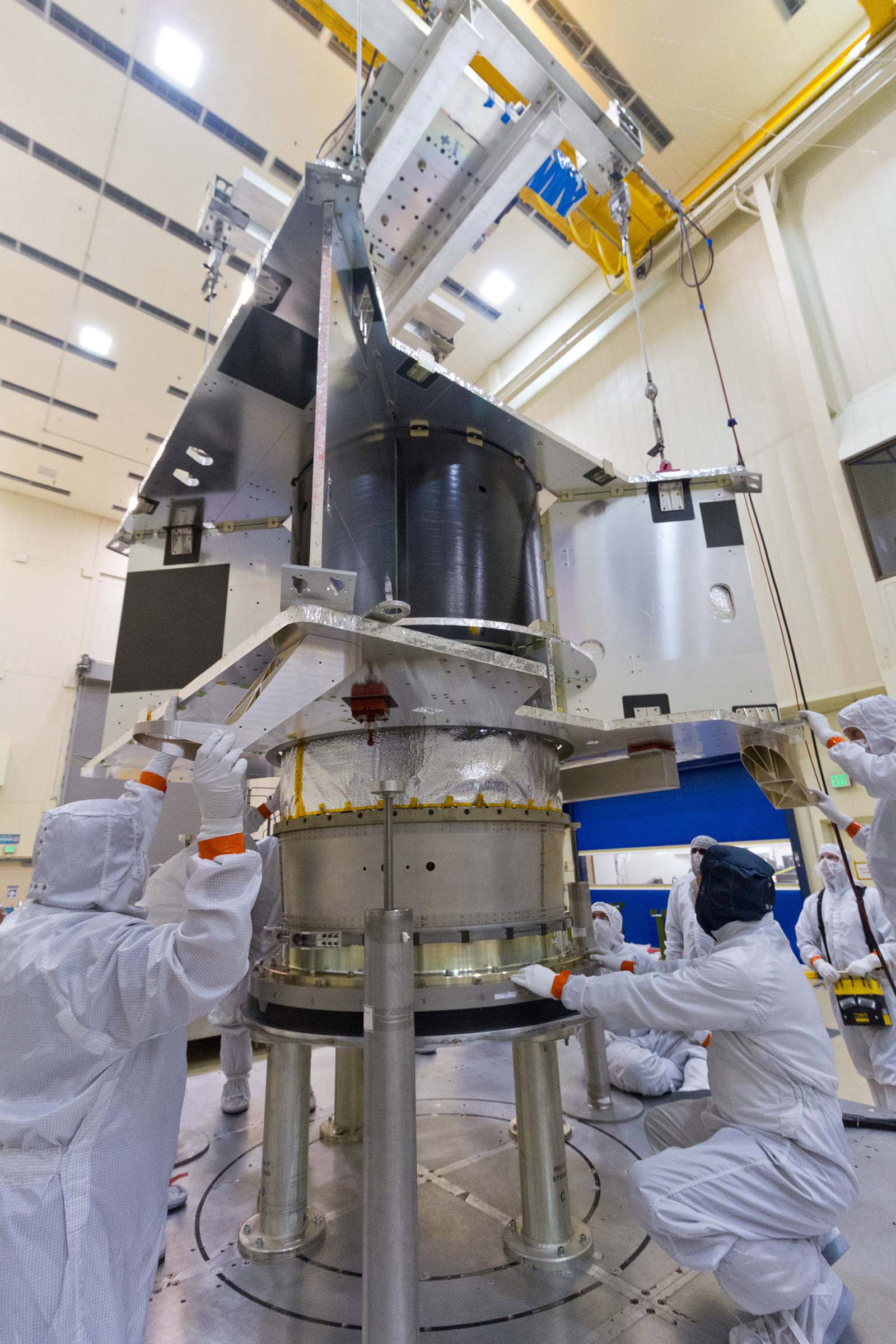 OSIRIS-REx Structure lift and installation over Propellant Tank at a Lockheed Martin clean room.